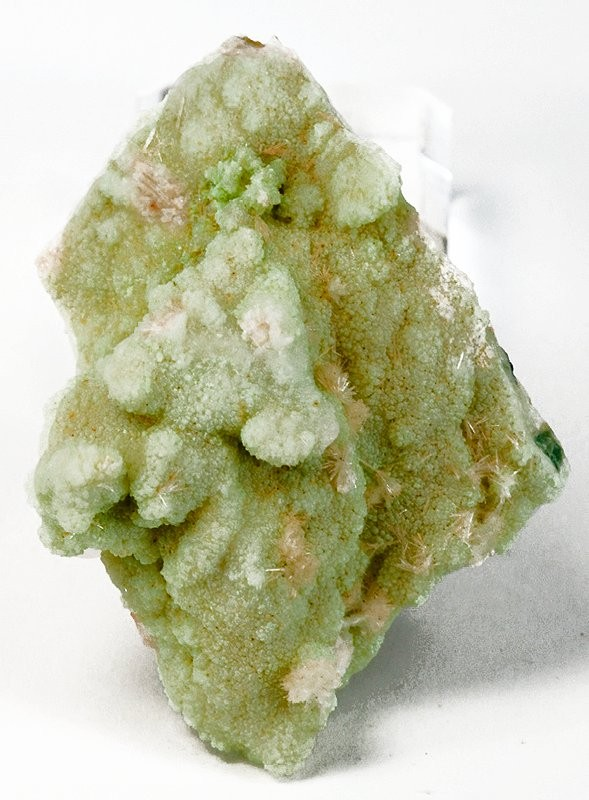 Hydromagnesite, Magnesite Locality: Cedar Hill Quarry (Stoltzfuss Quarry), Fulton Township, Lancaster County, Pennsylvania, USA (Locality at ) Size: 7.3 x 5.5 x 3.1 cm. Radial sprays of glassy hydromagnesite needles are nicely scattered on pastel-green magnesite (coloured by nickel impurities) with an unusual knobby/bubbly/drusy form. The specimen is from the Cedar Hill Quarry of Pennsylvania [see, however, a gravel quarry mining the State-line belt of serpentines and is near the Woods Chrome Mine. Ex. Lloyd Tate Collection.